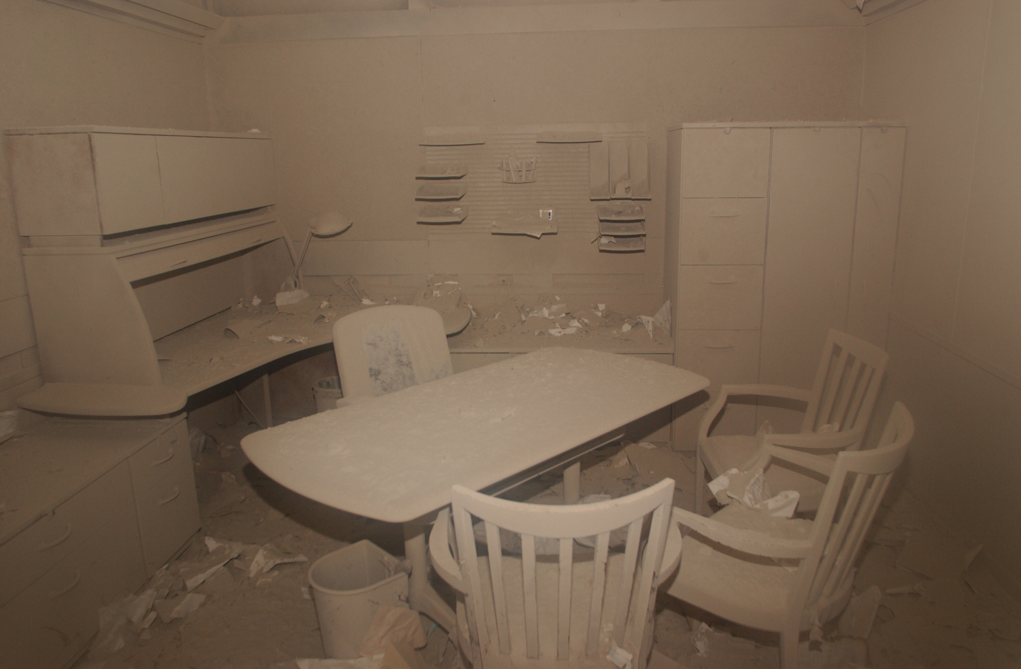 New York, NY, September 20, 2001 -- A dust covered office in building near the World Trade Center. Photo by Andrea Booher/ FEMA News Photo